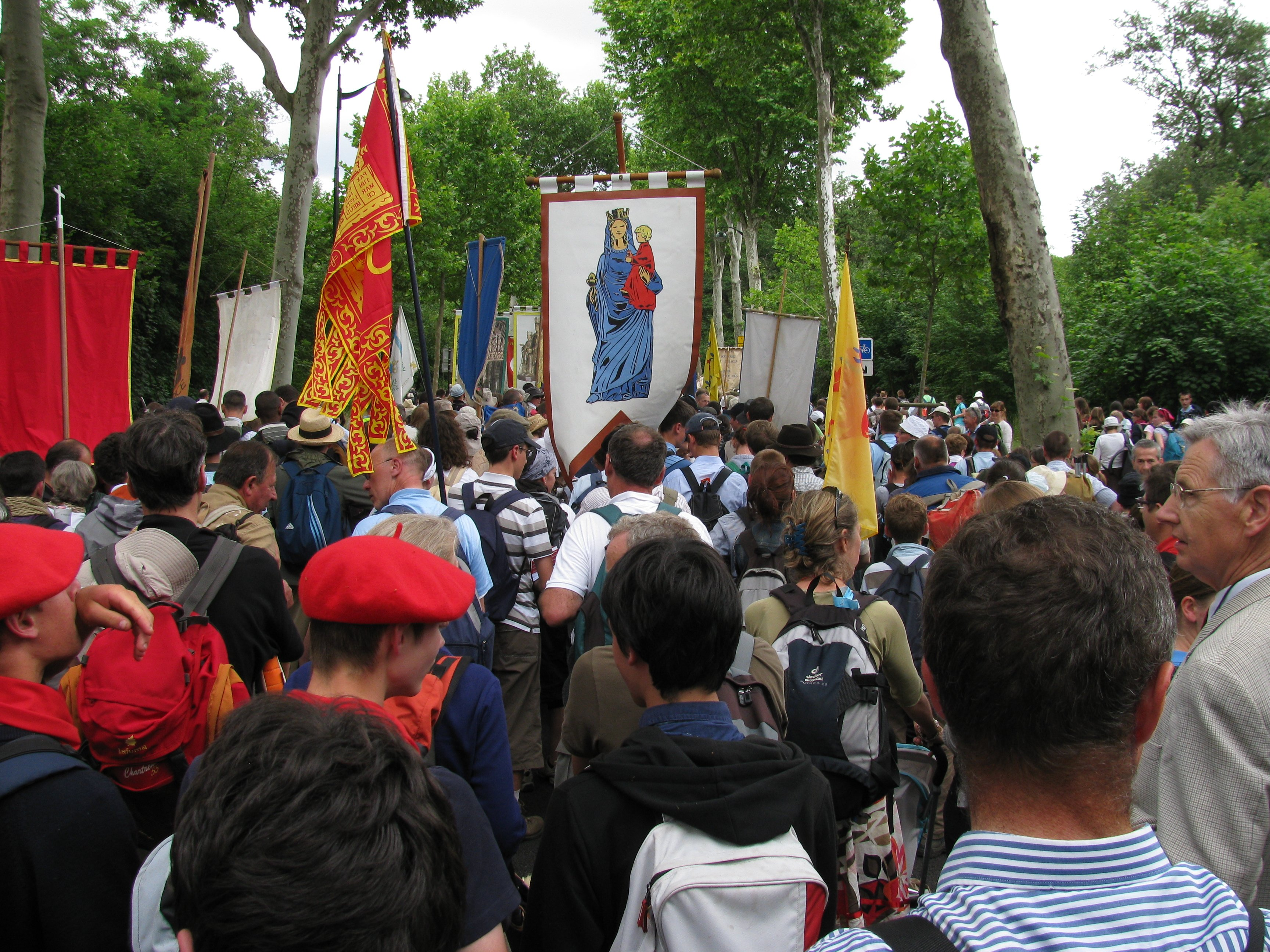 Jun 2011 - Pèlerinage de Tradition - pilgrimage from Chartres to Paris - in Paris